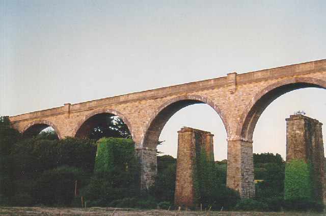 Viaduct - Carnon River. Viaduct near Perranwell station and Carnon Downs. Note pillars from old viaduct.